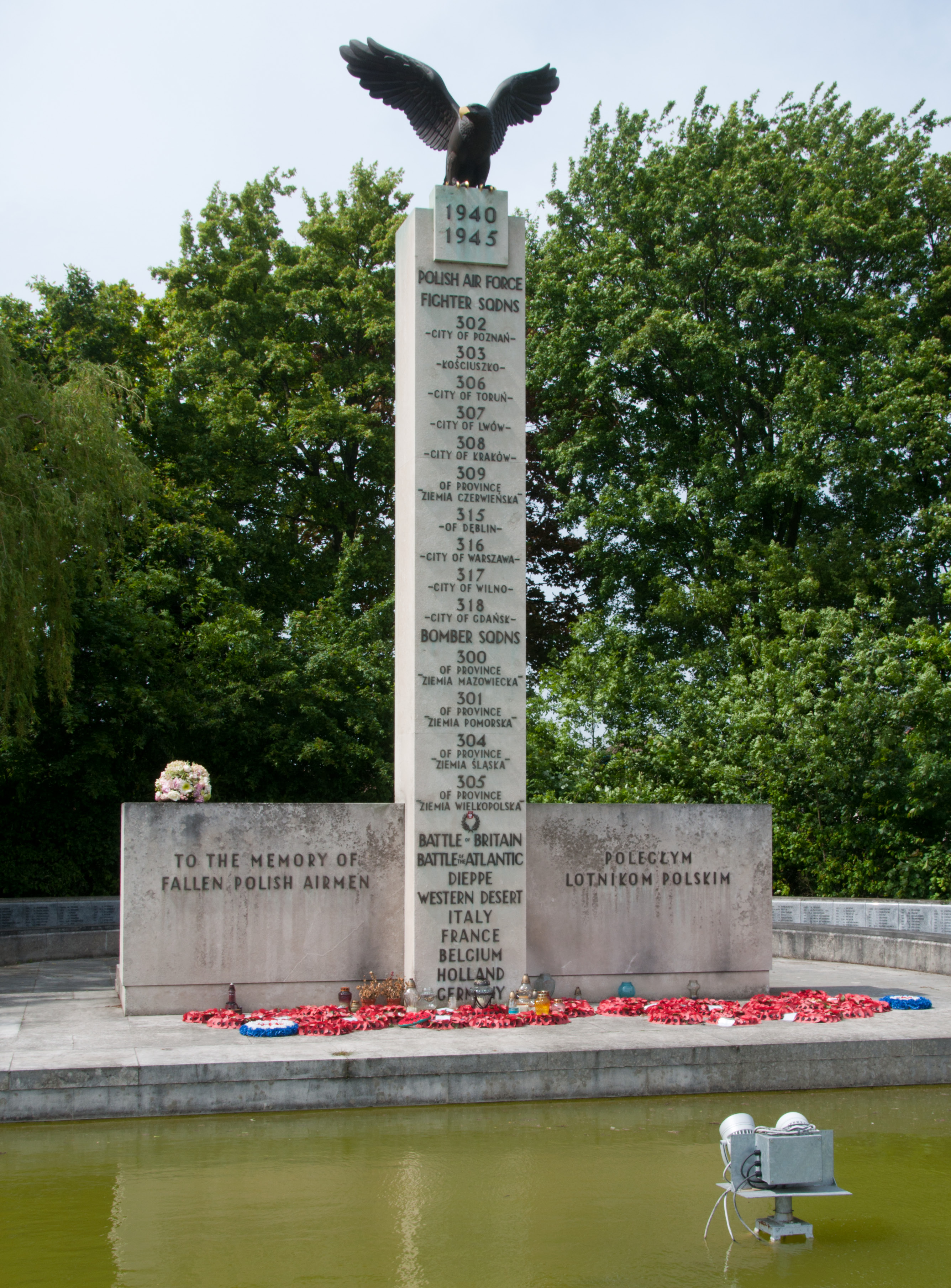 The central edifice with the walls with names behind